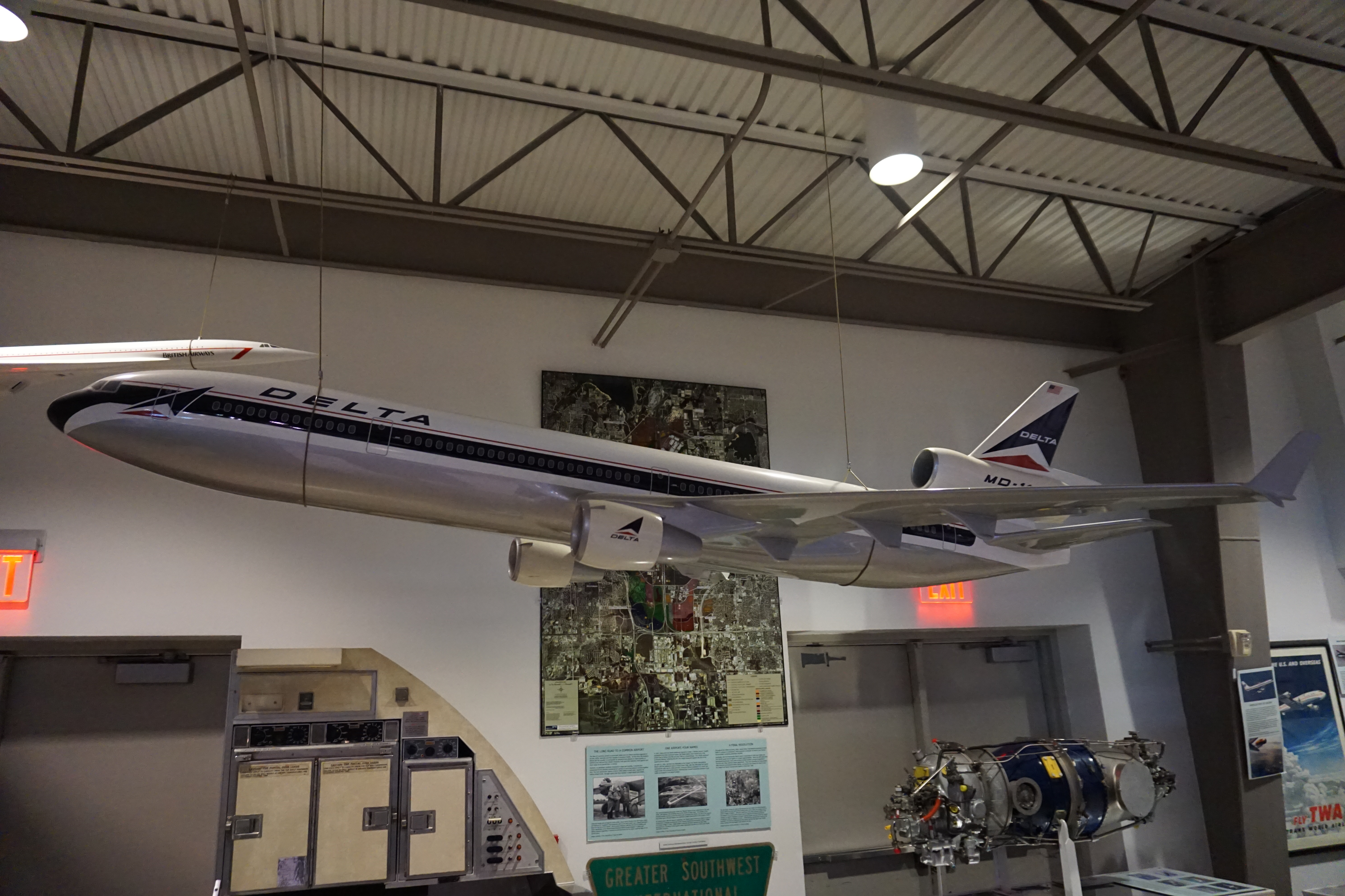 A Delta Air Lines McDonnell Douglas MD-11 model on display at the Frontiers of Flight Museum at Dallas Love Field in Dallas, Texas (United States).